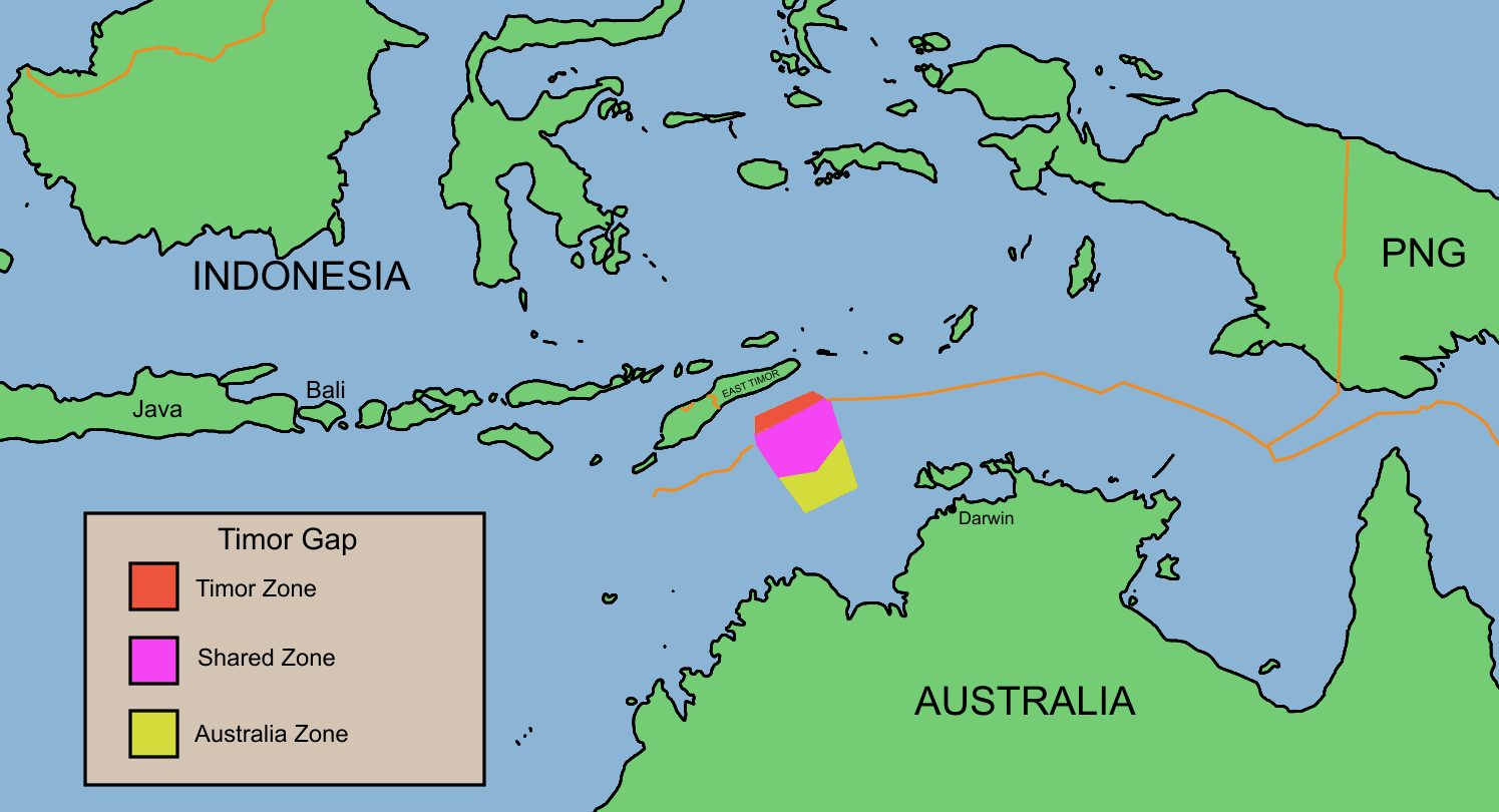 Map of the Timor Gap using various other maps for reference, made my me